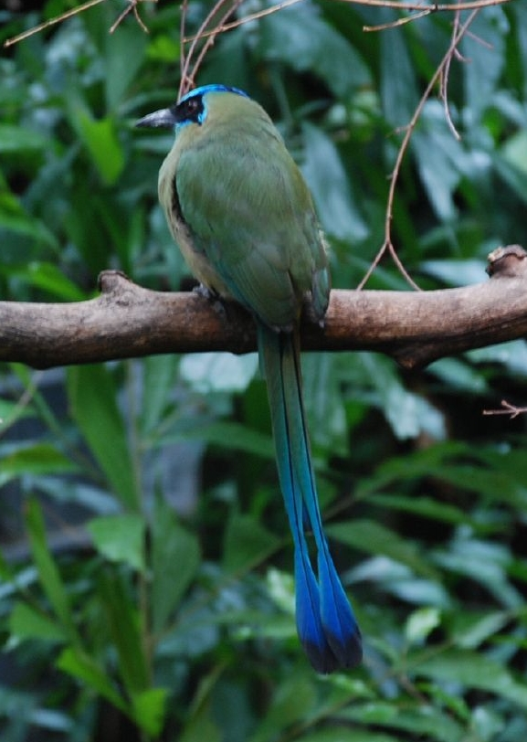 Blue-crowned Motmot at Woodland Park Zoo, Seattle, Washington, USA. It is a sub-adult - its racquet-shaped tail feathers have not fully formed.